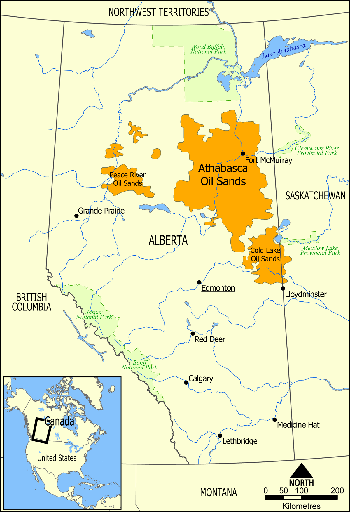 This map shows the extent of the oil sands in Alberta, Canada. The three oil sand deposits are known as the Athabasca Oil Sands, the Cold Lake Oil Sands, and the Peace River Oil Sands.